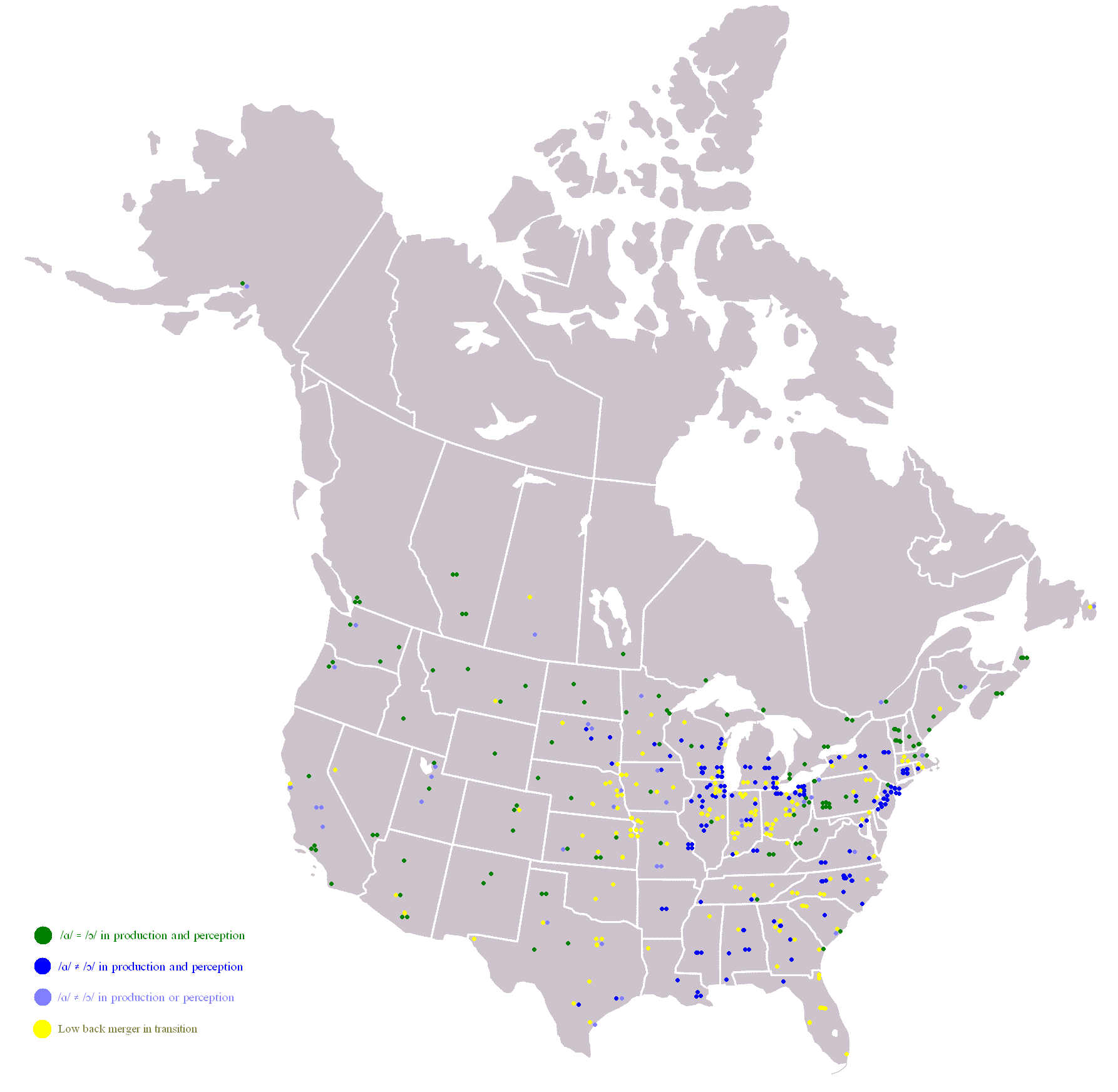 Map showing the distribution of the cot–caught merger in North American English. Green dots: /ɑ/ = /ɔ/ in perception and production. Dark blue dots: /ɑ/ ≠ /ɔ/ in perception and production. Pale blue dots: /ɑ/ ≠ /ɔ/ in perception or production. Yellow dots: Merger in transition.